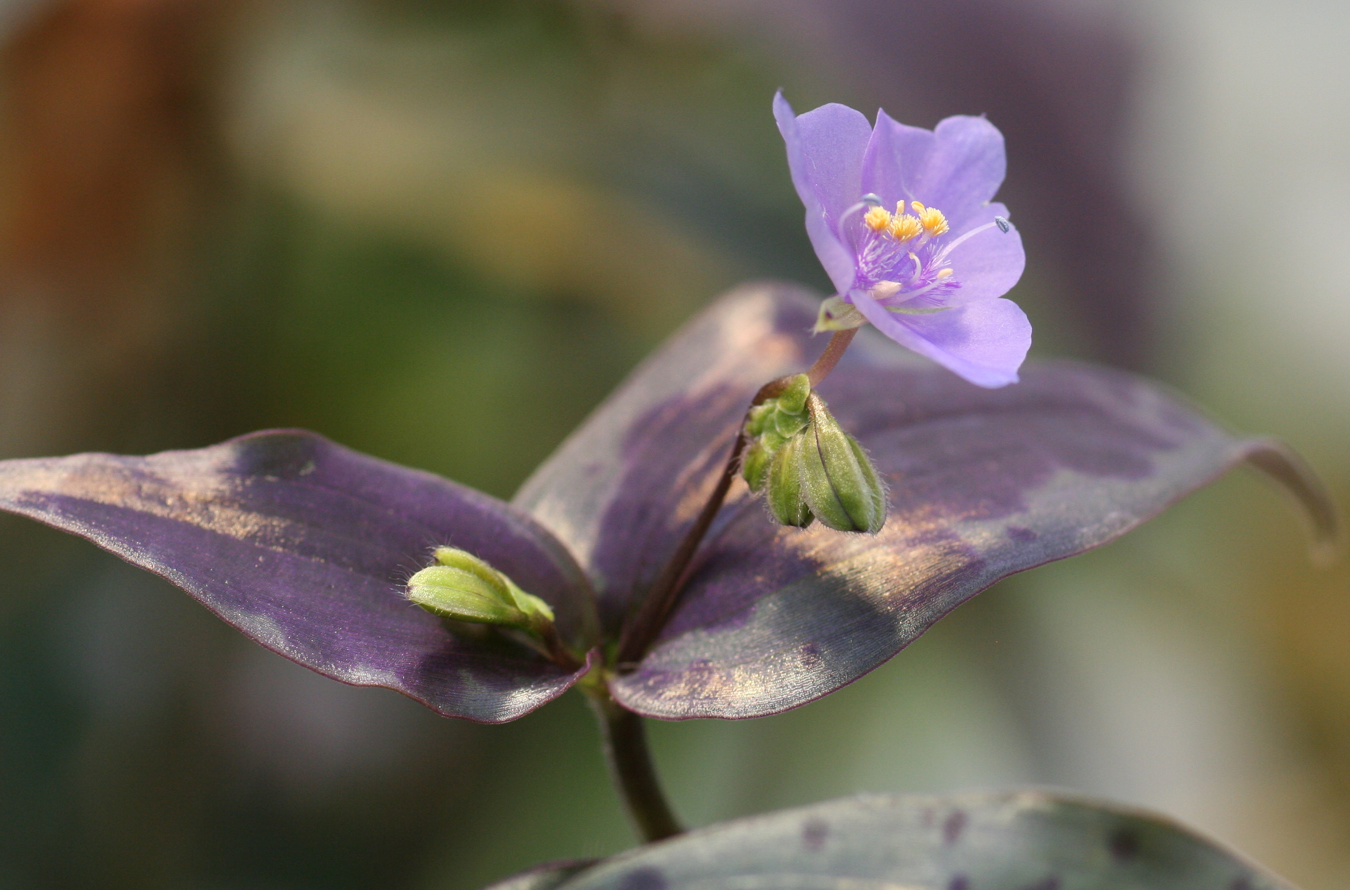 Tinantia pringlei growing in a greenhouse. The plant was propagated from the collection Avent AIM-775 from the Sierra Chiquita Mountains of Mexico at 1150 meters in altitude.